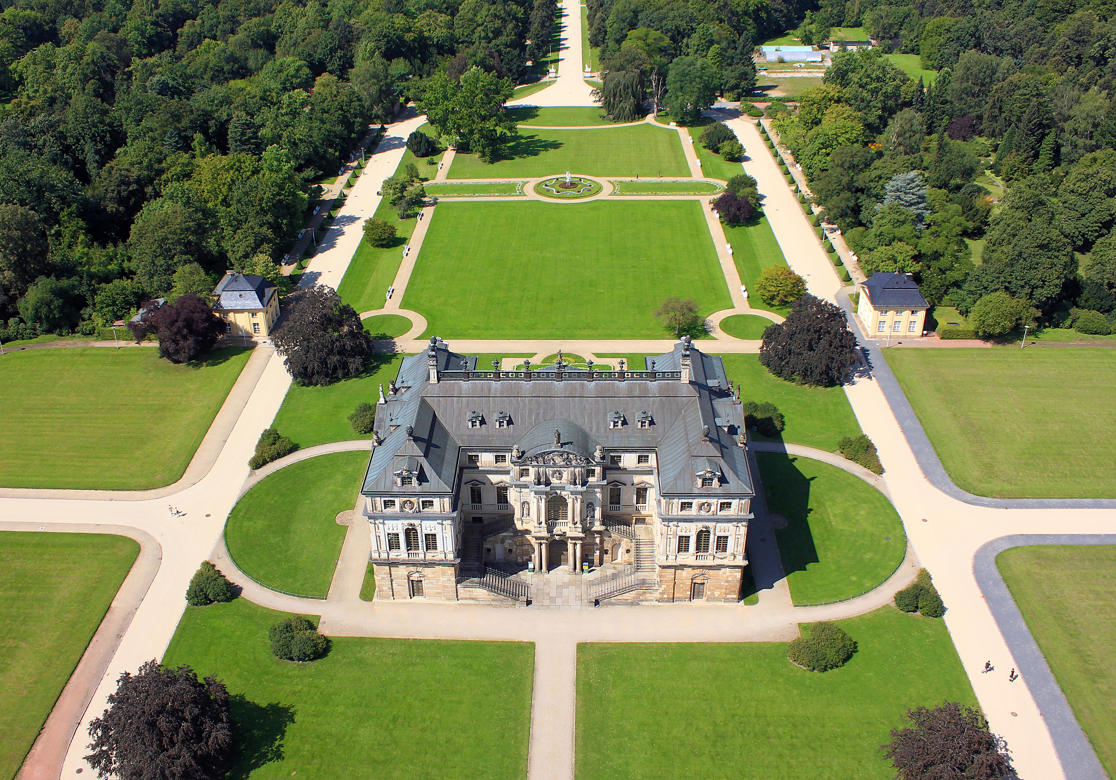 Low altitude aerial photo image of the Palais in the Großer Garten in Dresden. Delivered by [1]